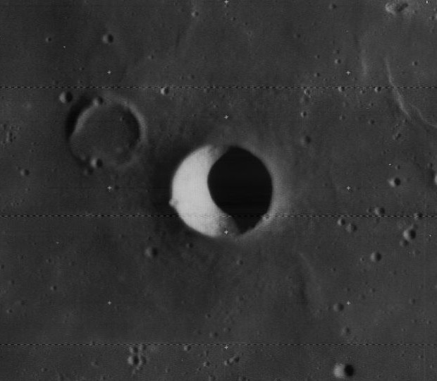 Ångström, on the moon.